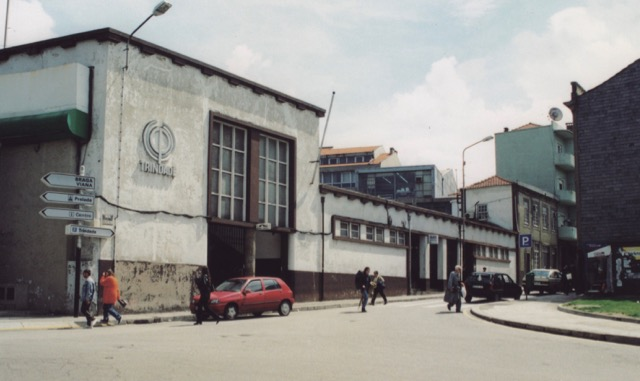 Trindade narrow gauge railway station short before it was demolished